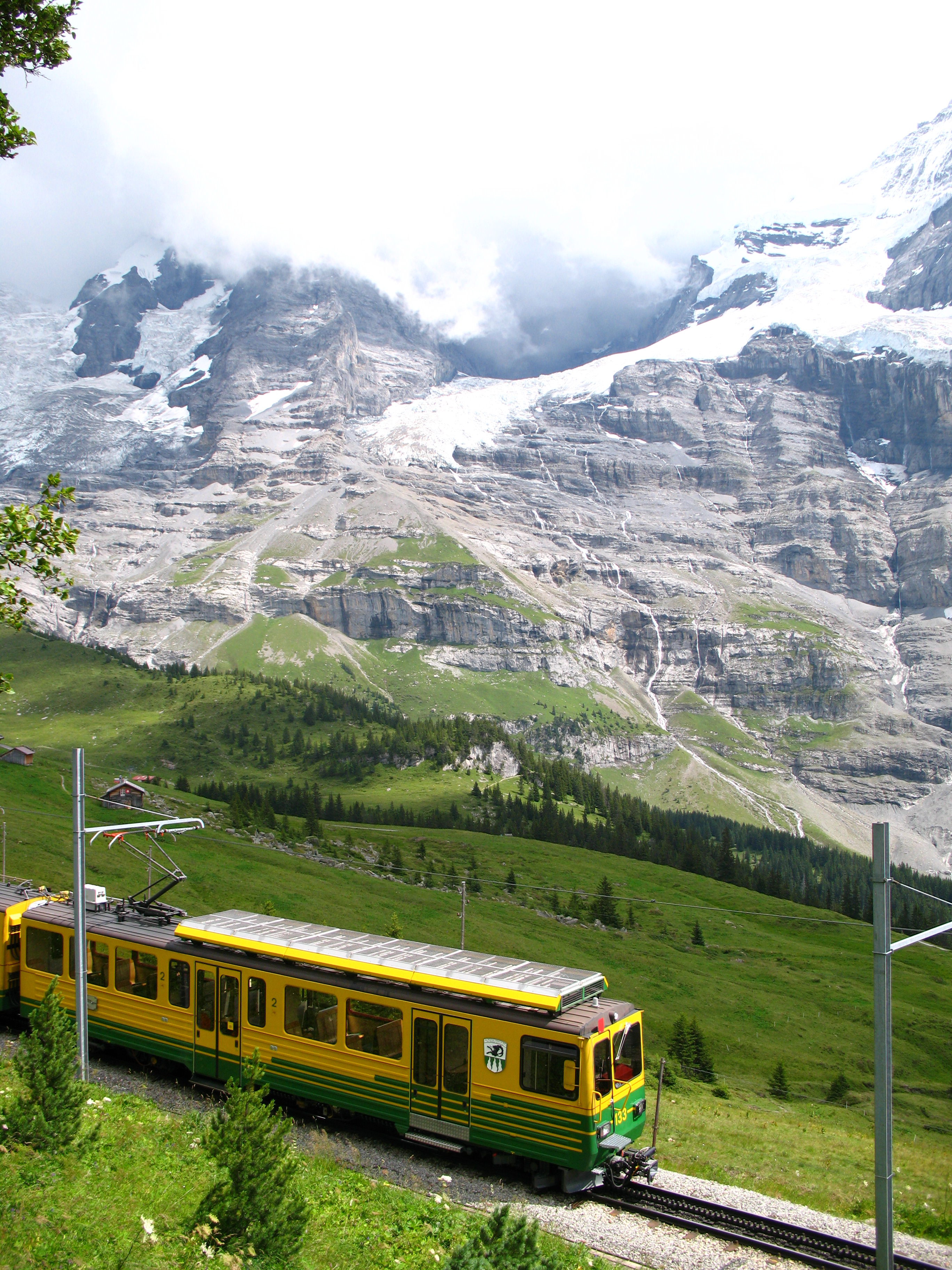 Wengernalpbahn, Wengernalp, Switzerland